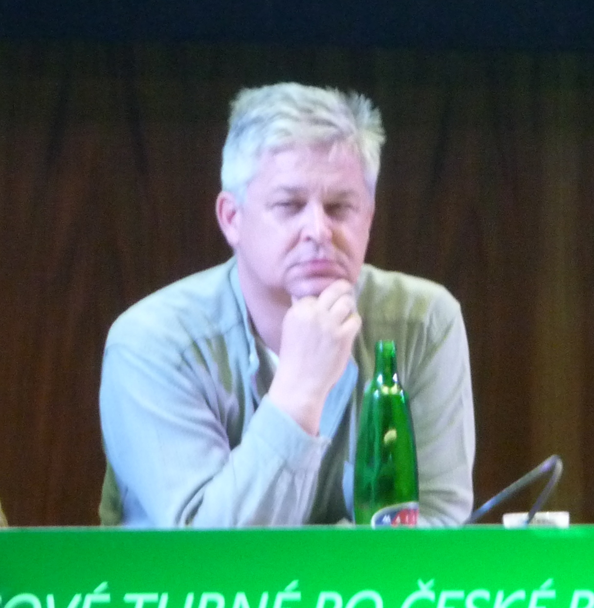 Miroslav Zámečník, Czech economist, at the lecture "Green economy", Břetislav Bakala hall